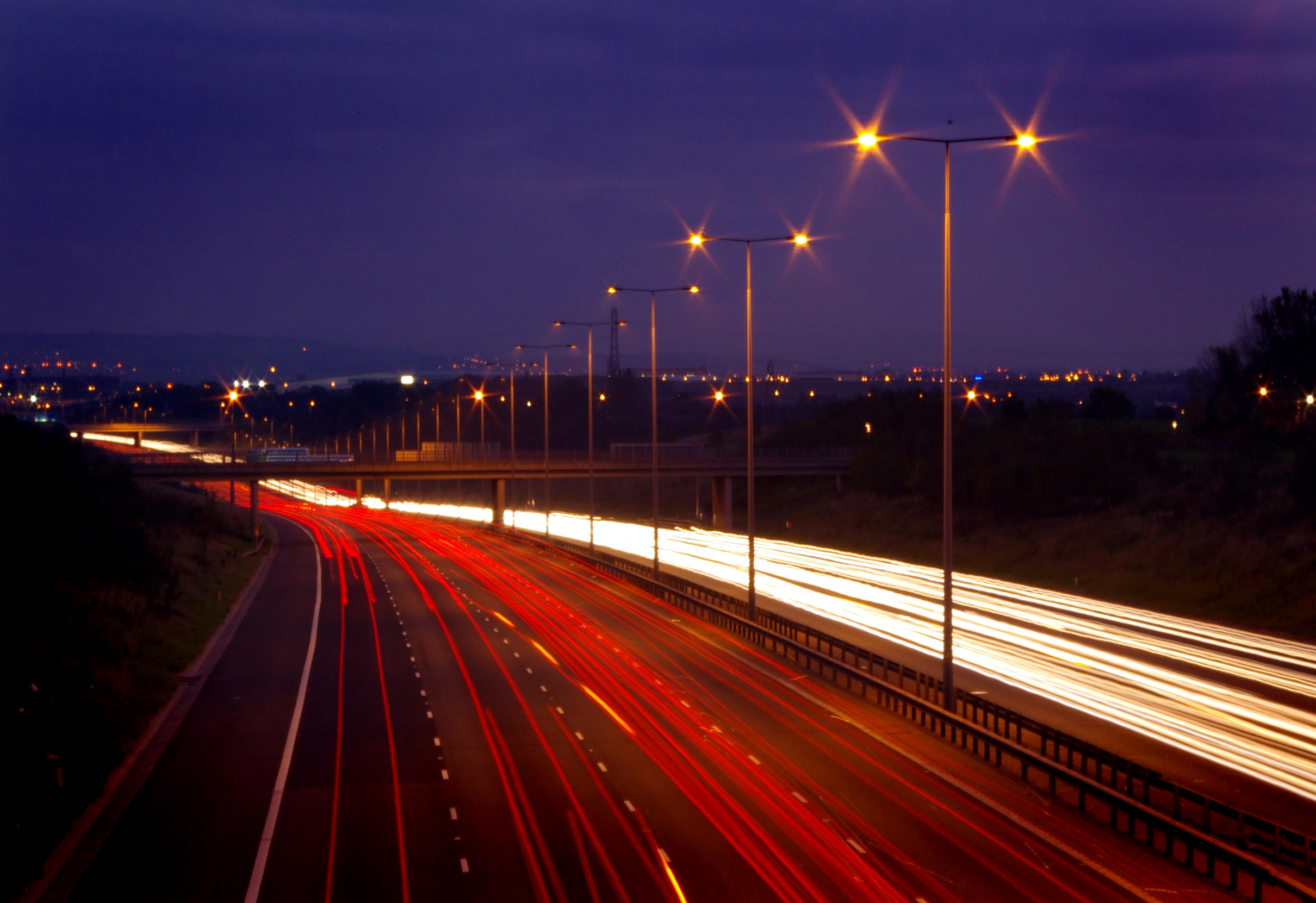 The M60 motorway, at Cutler Hill in Failsworth, Greater Manchester, England. This was taken looking towards Woodhouses.